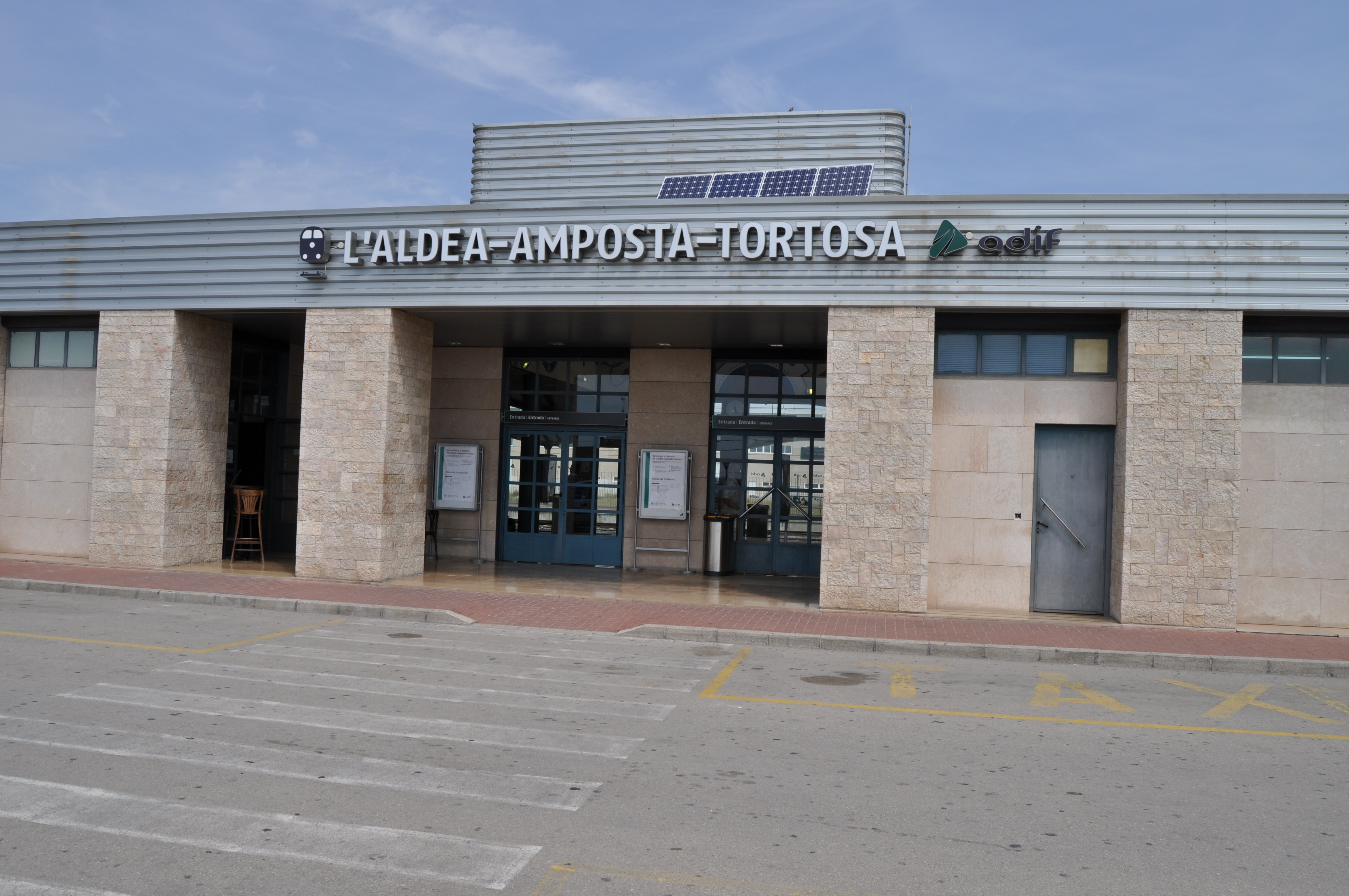 L'Aldea-Amposta-Tortosa rail station (Spain)